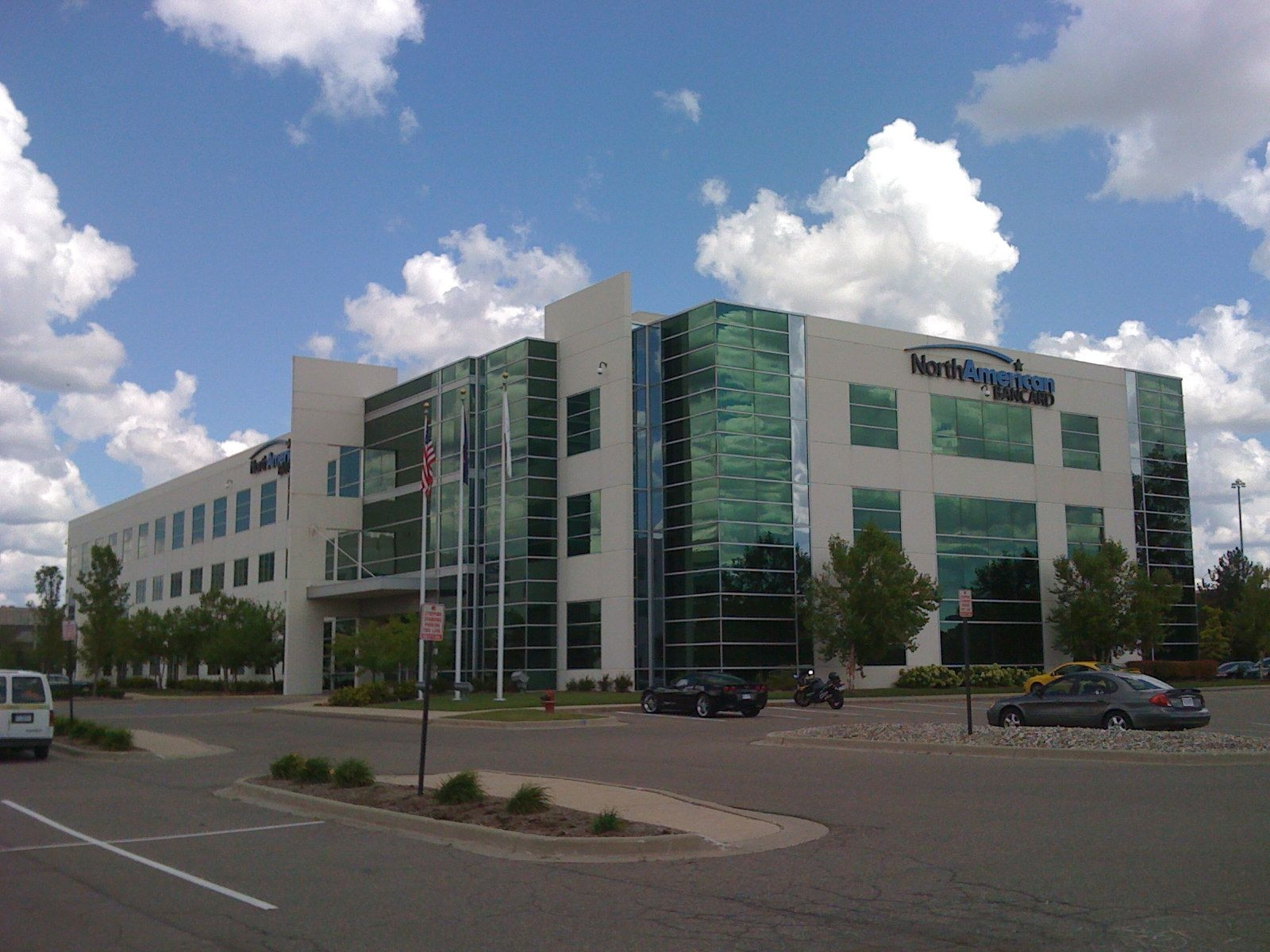 North American Bancard Corporate Building